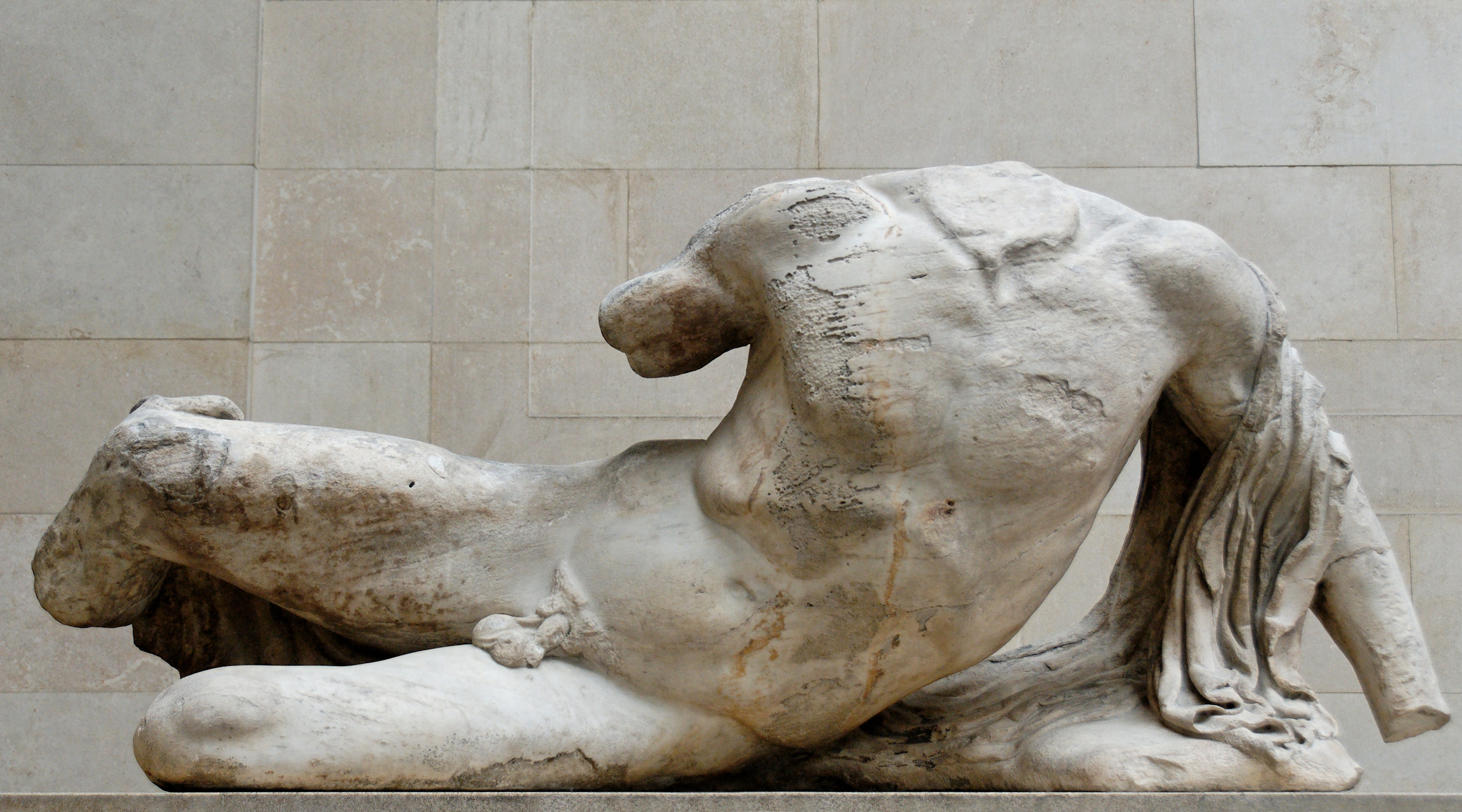 Reclining hero, perhaps the river-god Ilissos. West pediment A, Parthenon, ca. 447–433 BC.